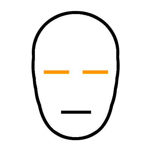 B3 classification image. Partially based on information found in this.